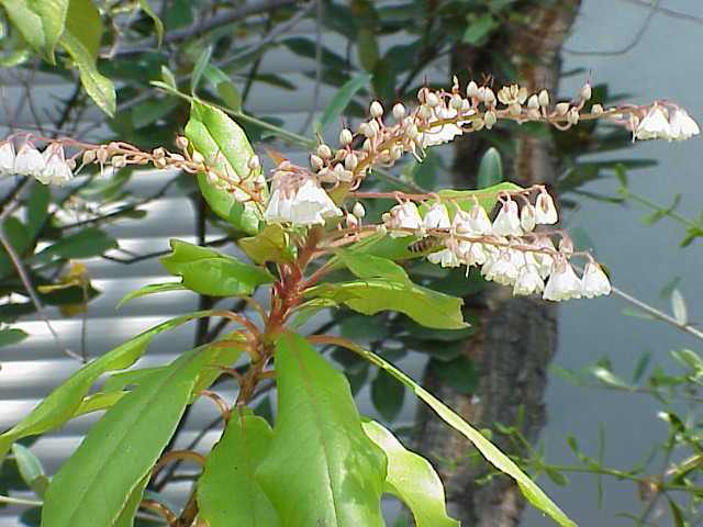 Species: Clethra arborea Family: Clethraceae Image No. 3